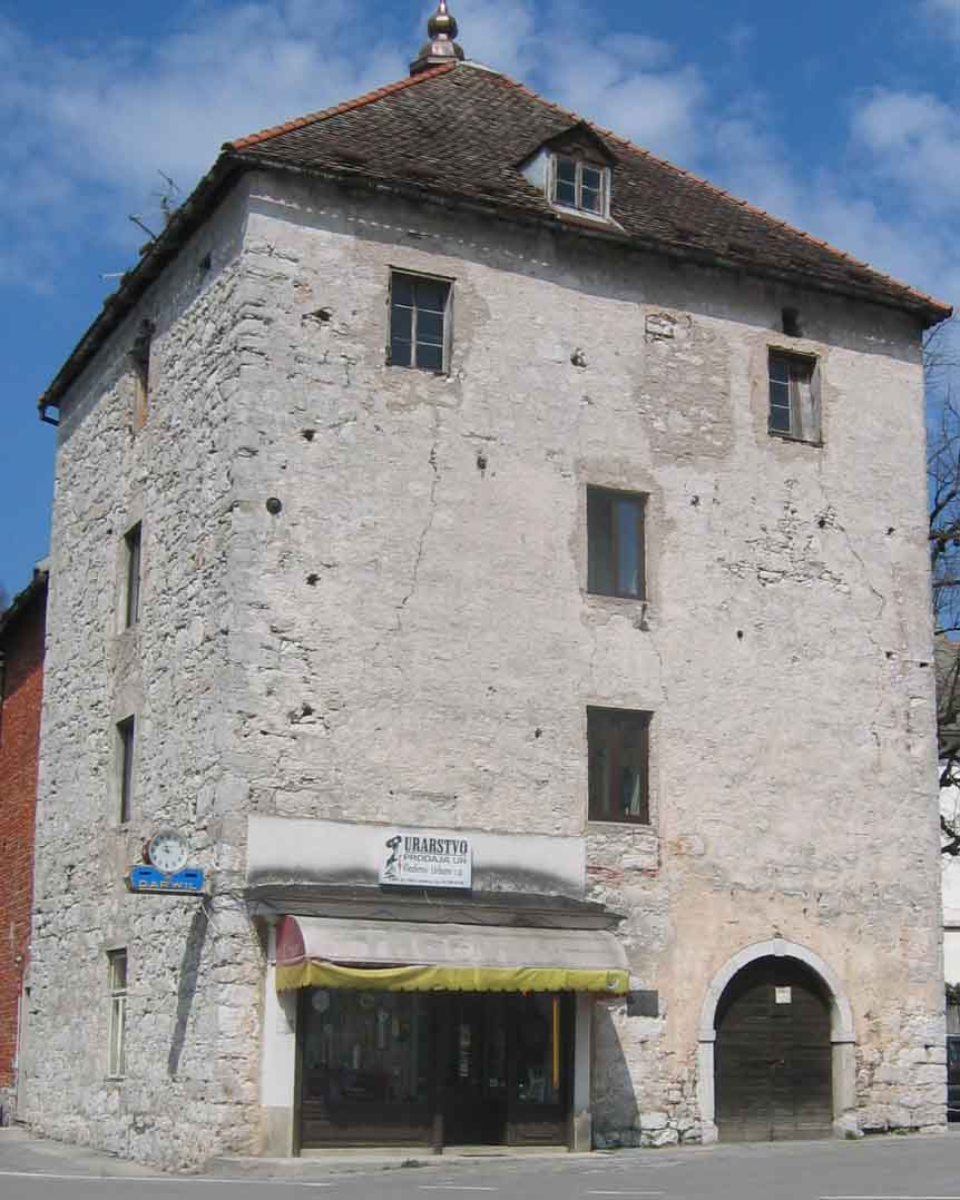 Cerknica, town in Slovenia - birth house of literate Jože Udovič photo:Ziga 19:48, 7 April 2007 (UTC)